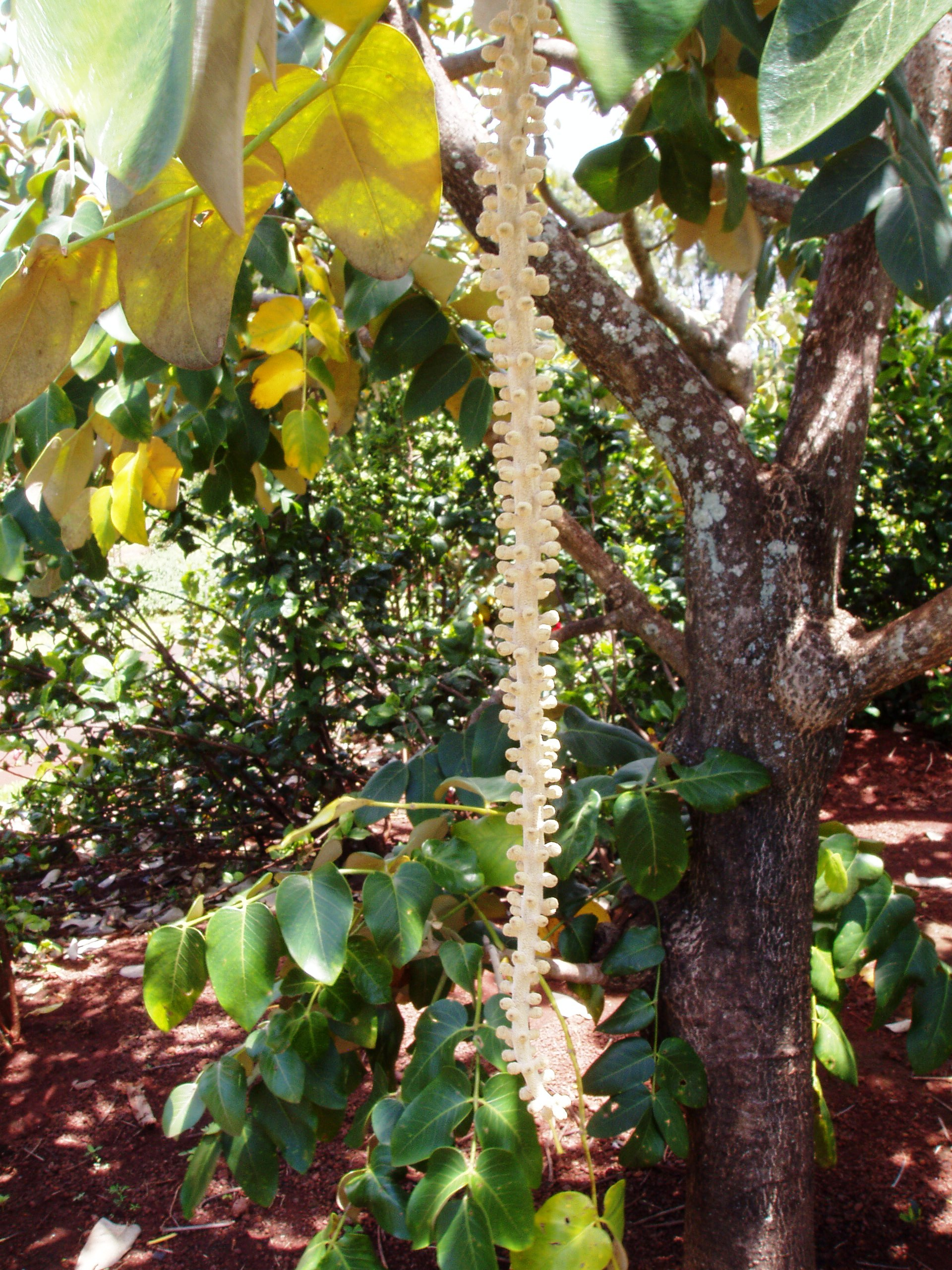 Flower of the Munroidendron racemosum (growing in the visitor's area of the National Tropical Botanical Garden, Kauai, Hawaii).